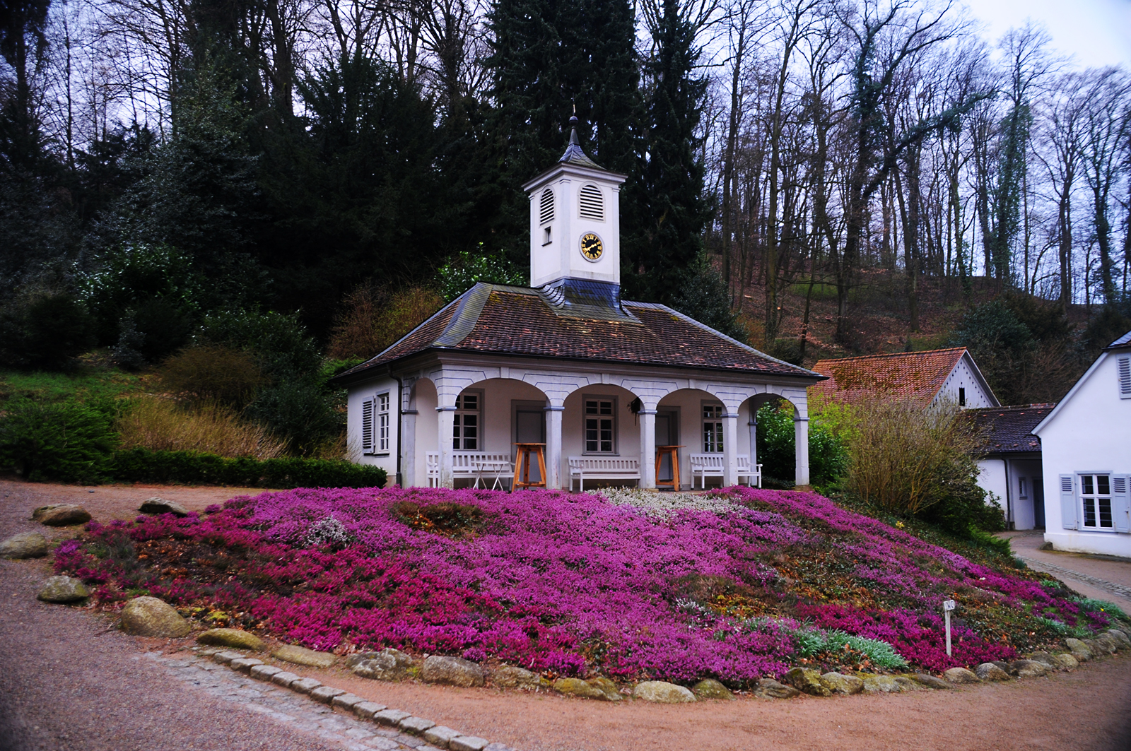 guard's house, fuerstenlager